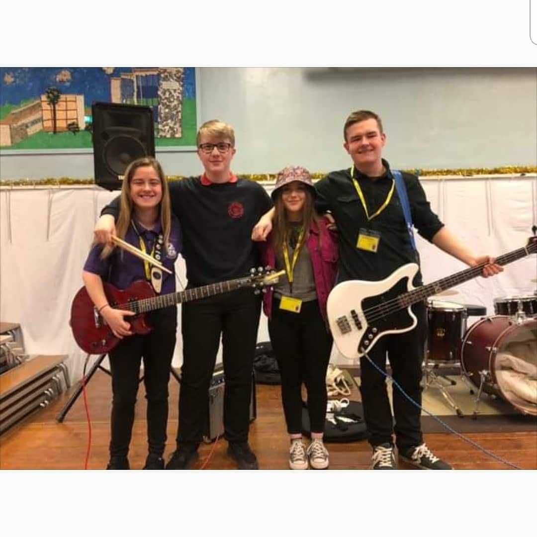 Aerobic Band